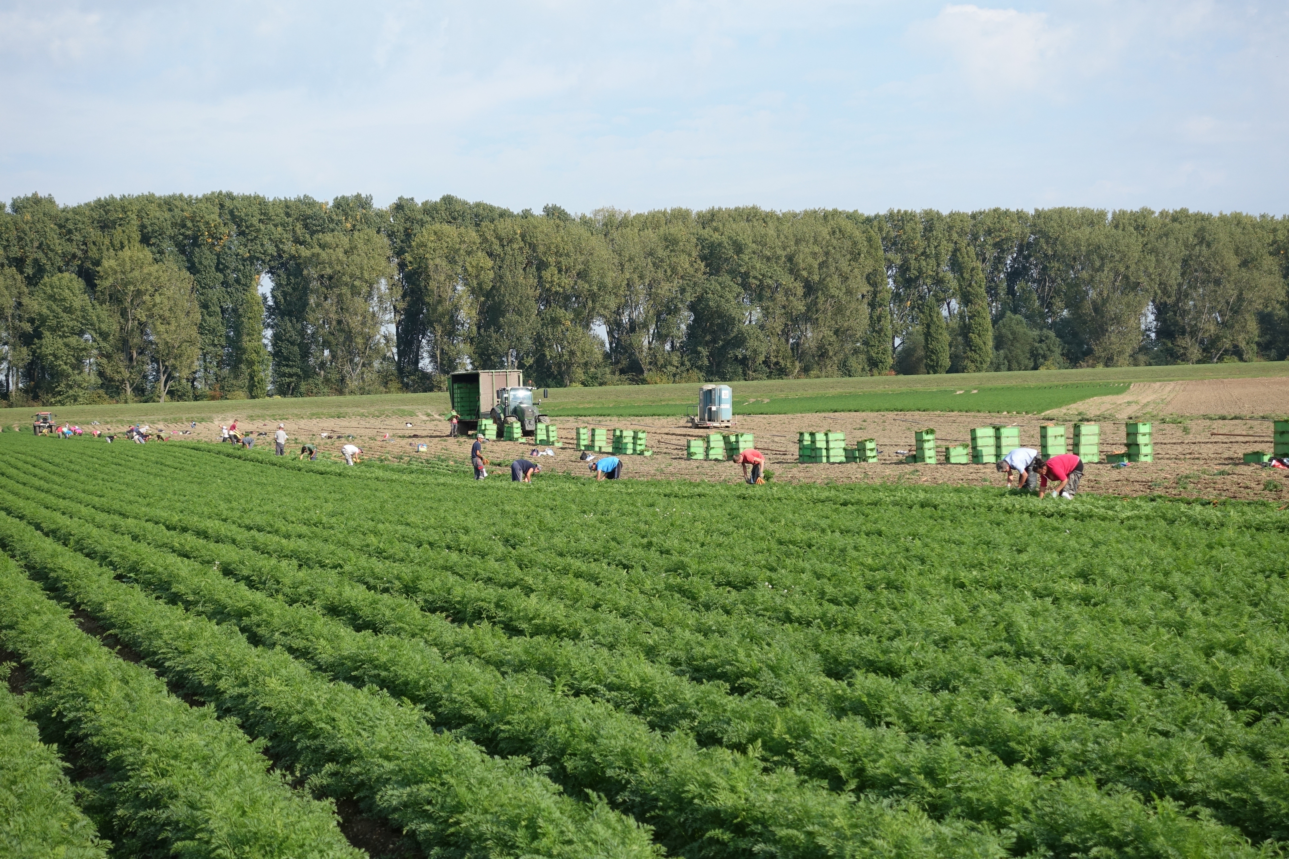 Harvest helpers near Frankenthal, Rhineland-Palatinate, Germany, harvesting carots